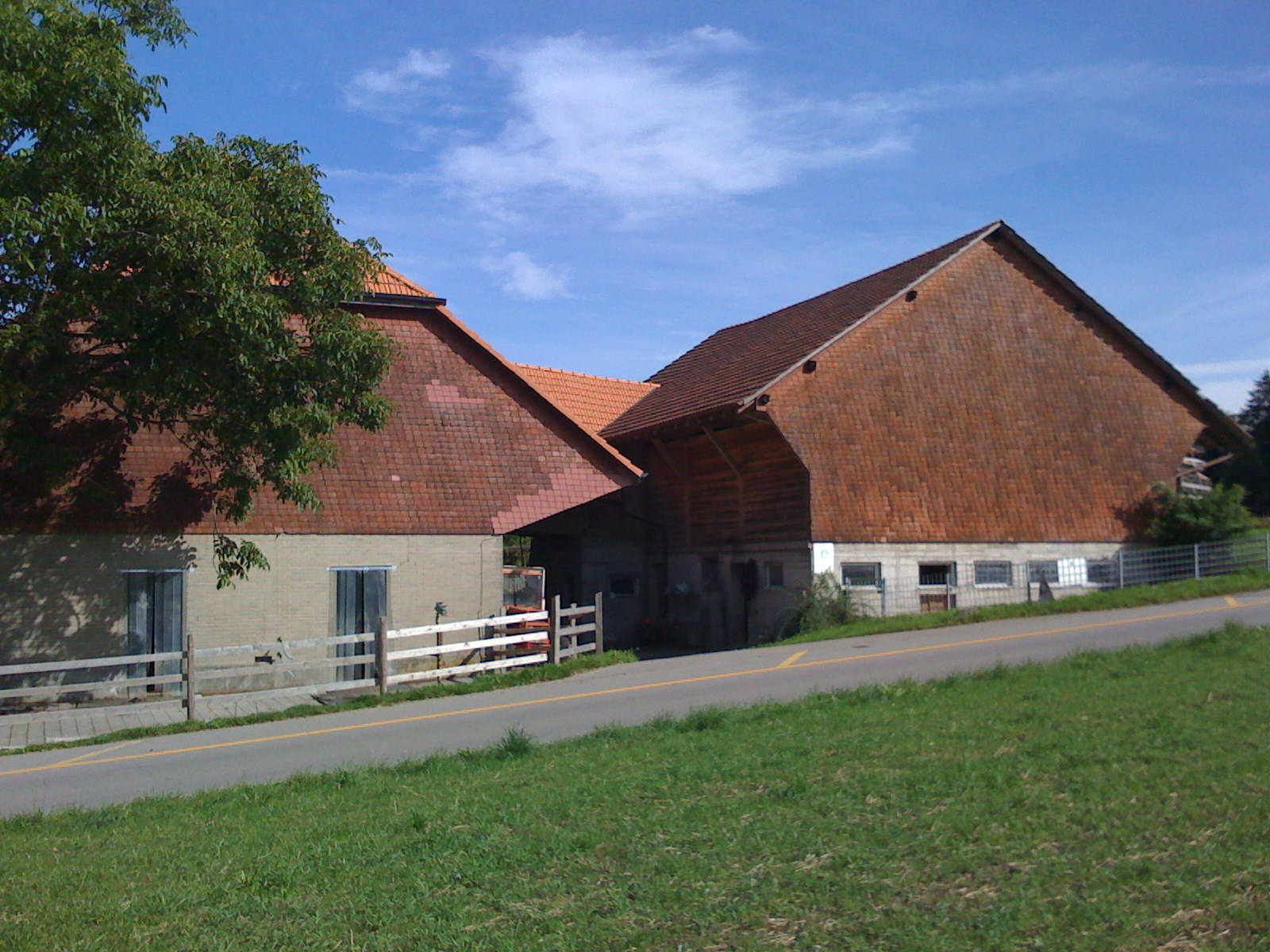 Farm buildings in Münchenbuchsee, Fraubrunnen, Switzerland, photographed using an Apple iPhone.